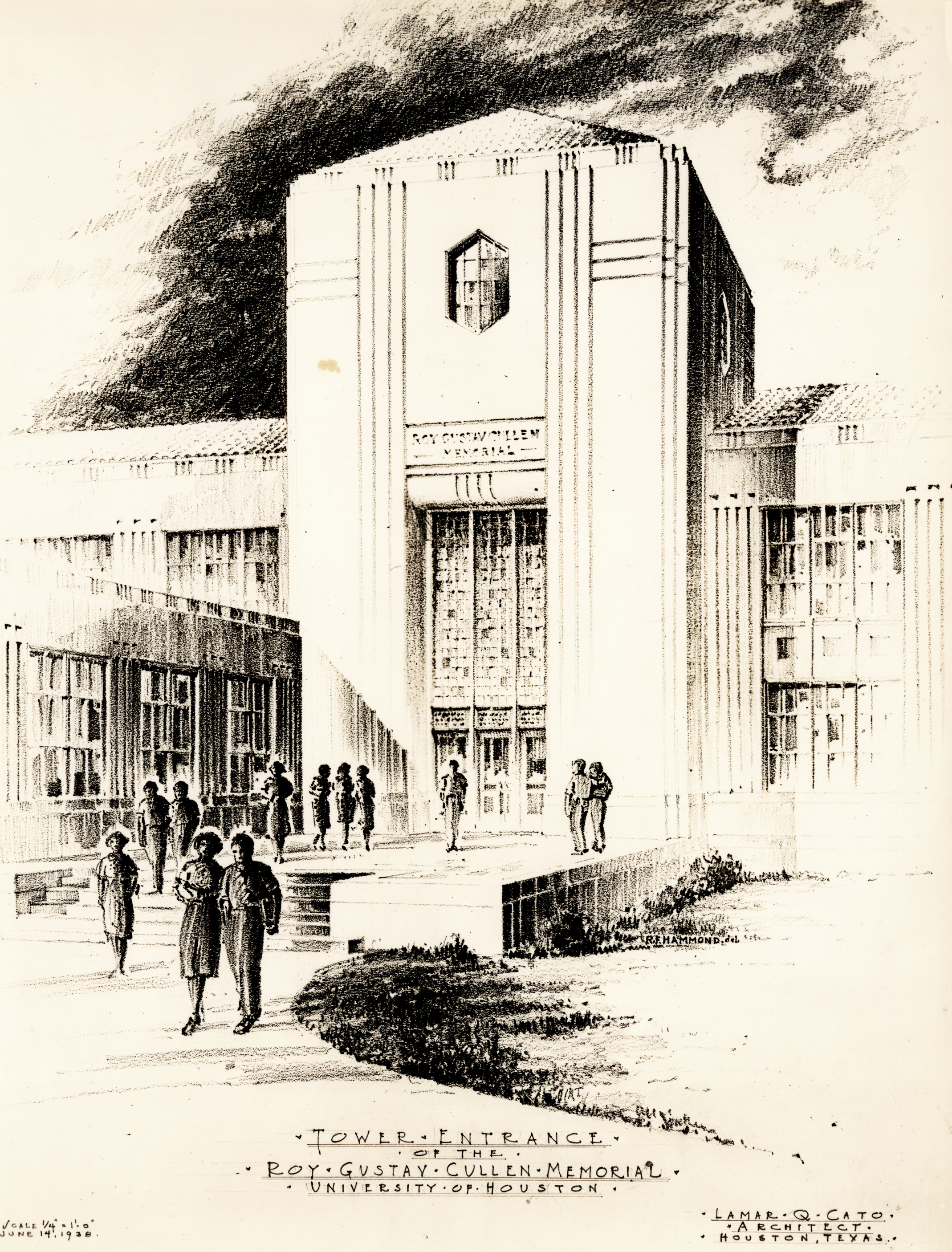 This is a preliminary drawing of the Roy G. Cullen Memorial building on the campus of the University of Houston drawn by the architect of the original building.